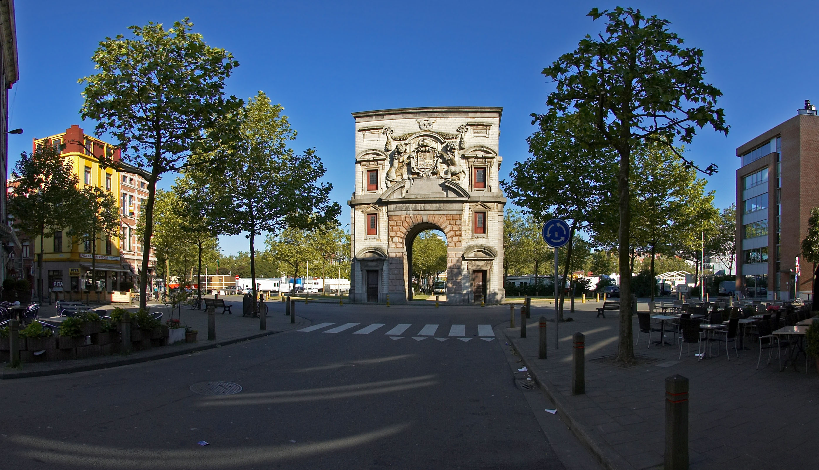 Gate "Waterpoort" at the Gillisplaats, Antwerp, Belgium